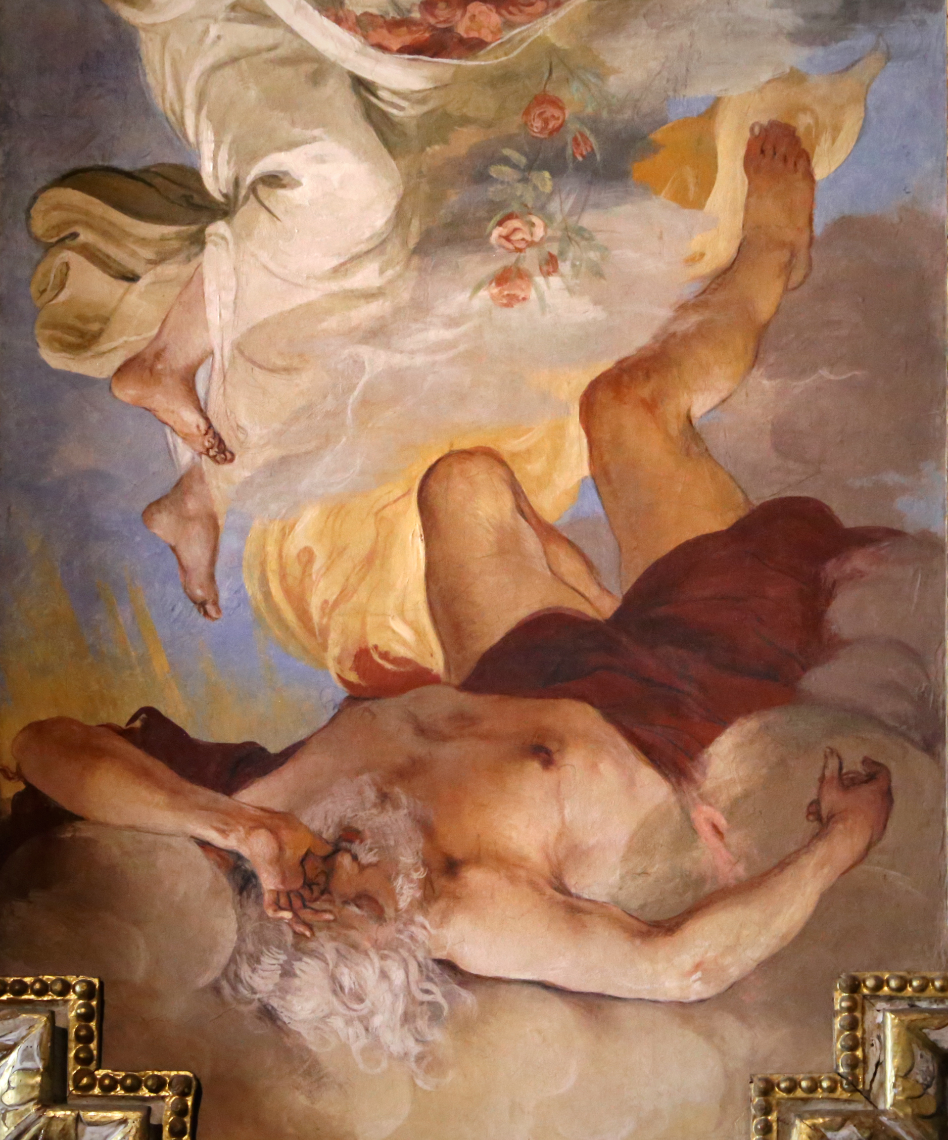 Museo Bardini - Paintings